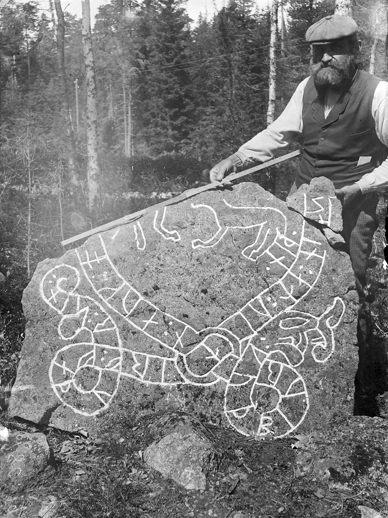 Man at runestone Sö 235 in Sorunda. The inscription says: "Gudbjörn and O-....had this stone raised in memory of Vidjärv, their father."